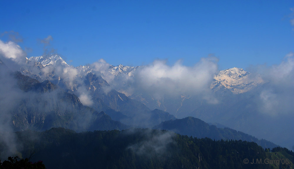 On 24/5/06 at Longa Thaatch during Saurkundi Pass Trek in Kullu District of Himachal Pradesh, India.